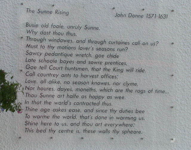 The Sunne Rising. This poem is affixed to the northern end of 923400.